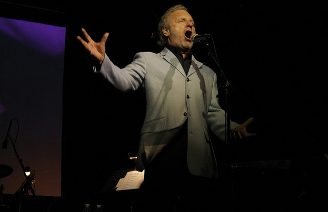 Colm Wilkinson singing in Toronto, Canada